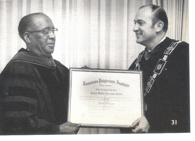 This photo is from a college yearbook prior to 1978 and not under copyright.